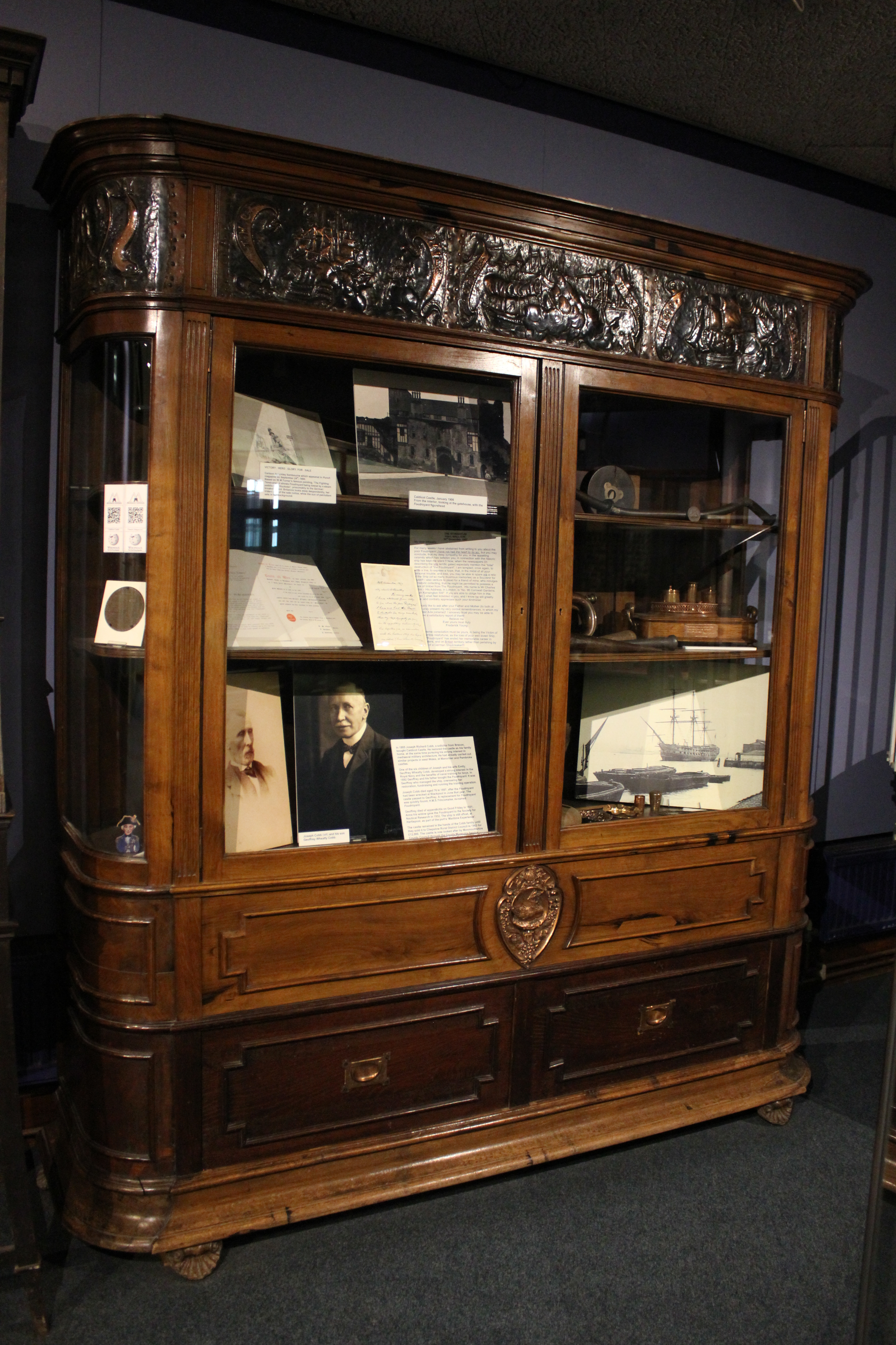 Cabinet made of the wreckage of HMS Foudroyant and containing objects also made of the same ship